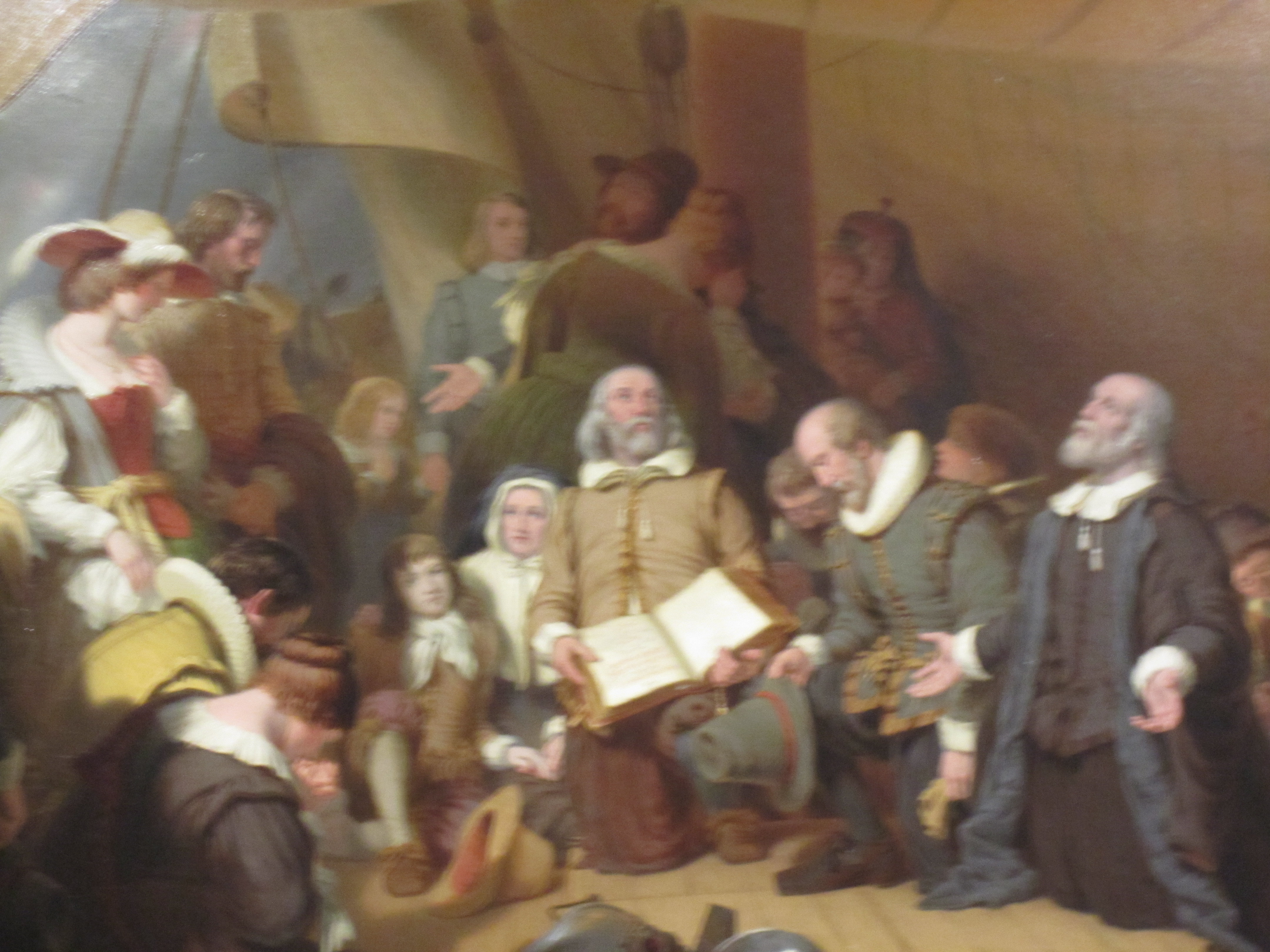 I took photo with Canon camera of Robert Weir's "The Embarkation of the Pilgrims" at the Brooklyn Museum.